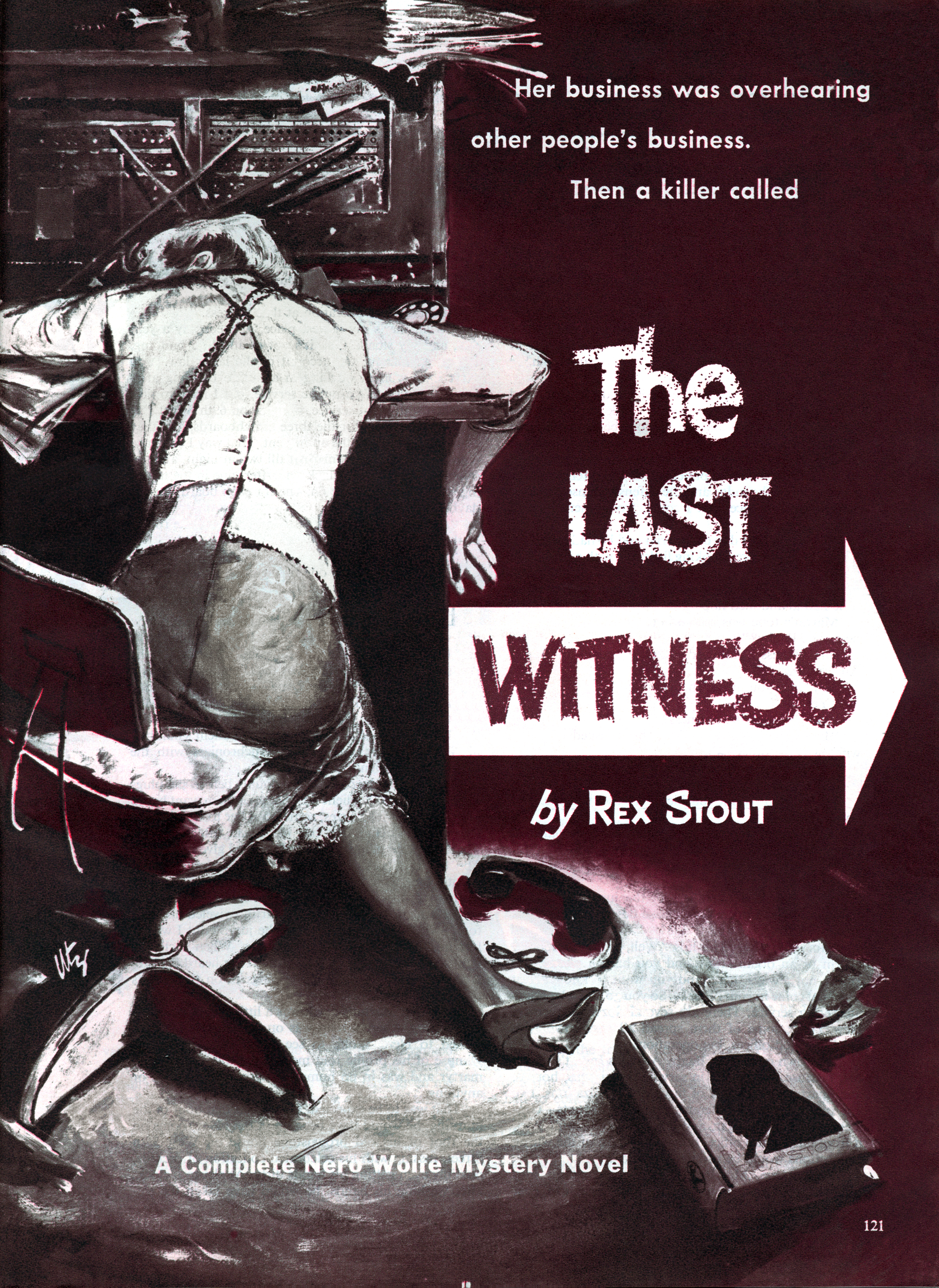 Lead illustration for "The Last Witness," a Nero Wolfe story by Rex Stout that first appeared in The American Magazine and was subsequently collected in the book Three Witnesses (1956), titled "The Next Witness"